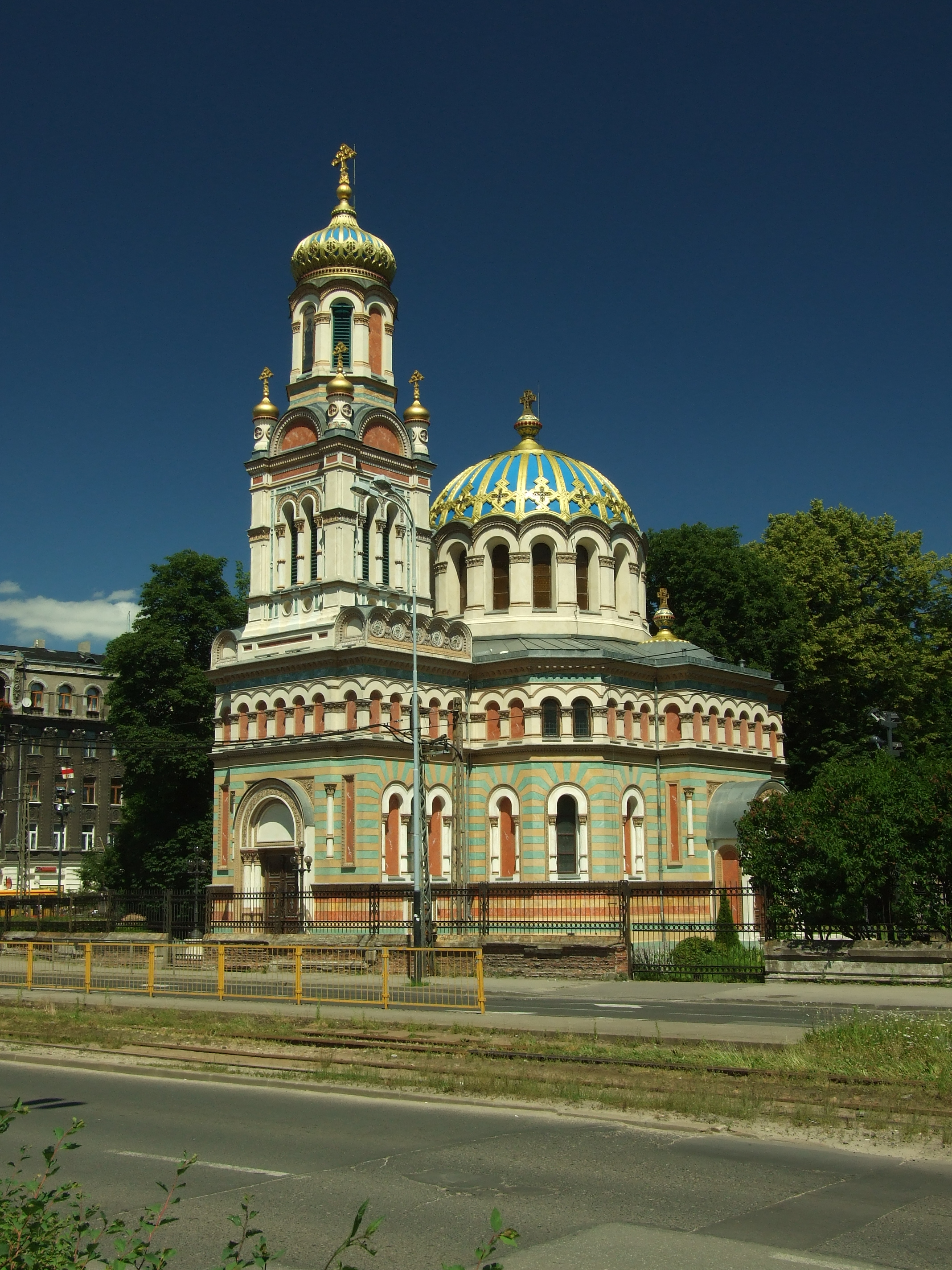 Łódź - temple of Alexander Newski, Łódź voivodship, Poland